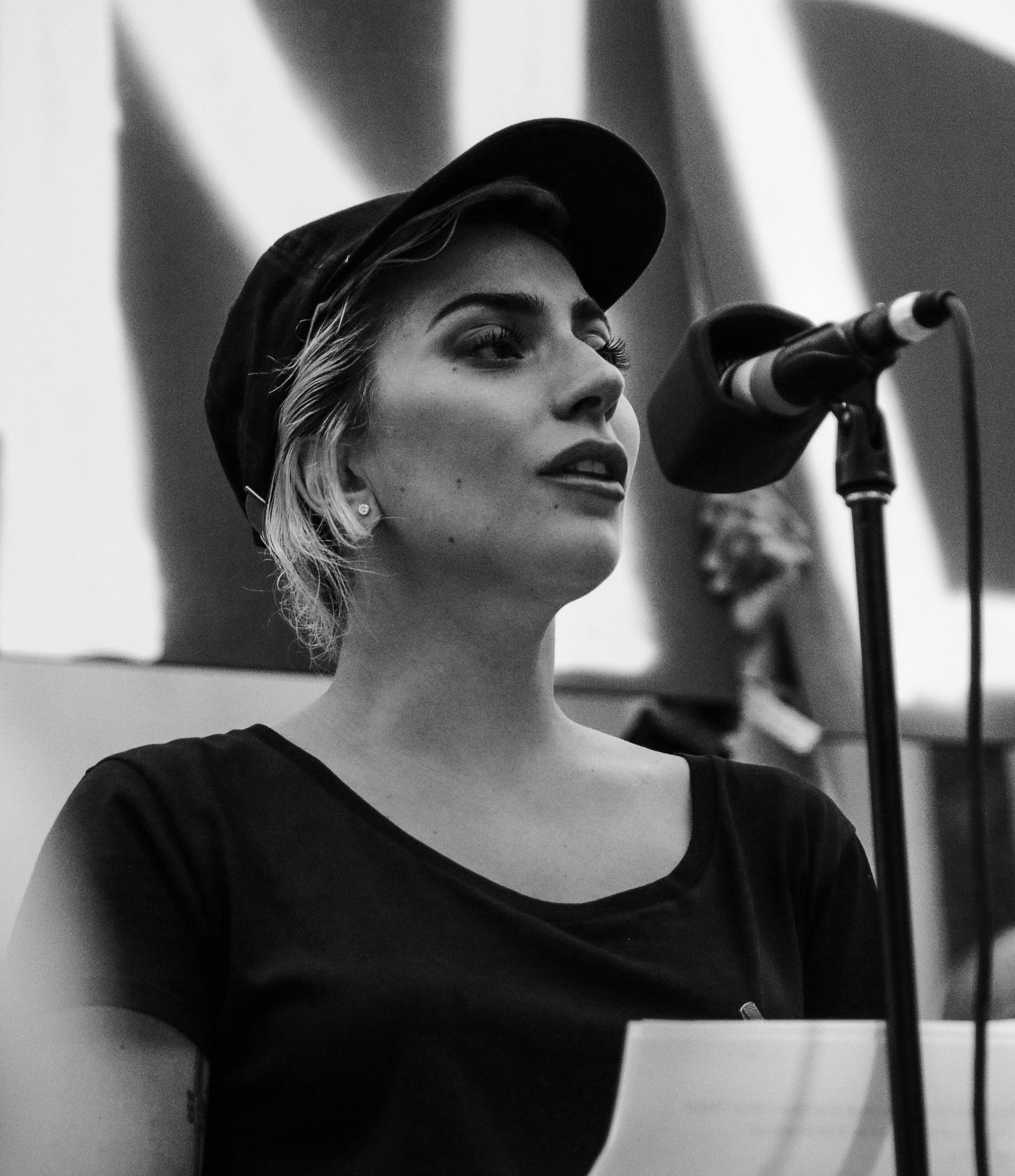 Lady Gaga speaking at a vigil for the victims on the shooting in Orlando on the steps of City Hall